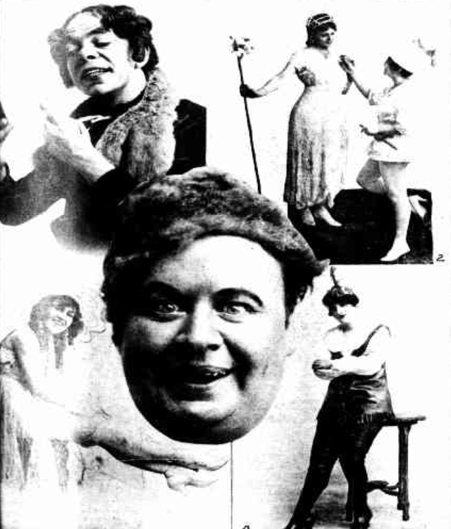 Photograph of Victor Prince and Nellie Fallon in Robinson Crusoe 1917 Australian Musical